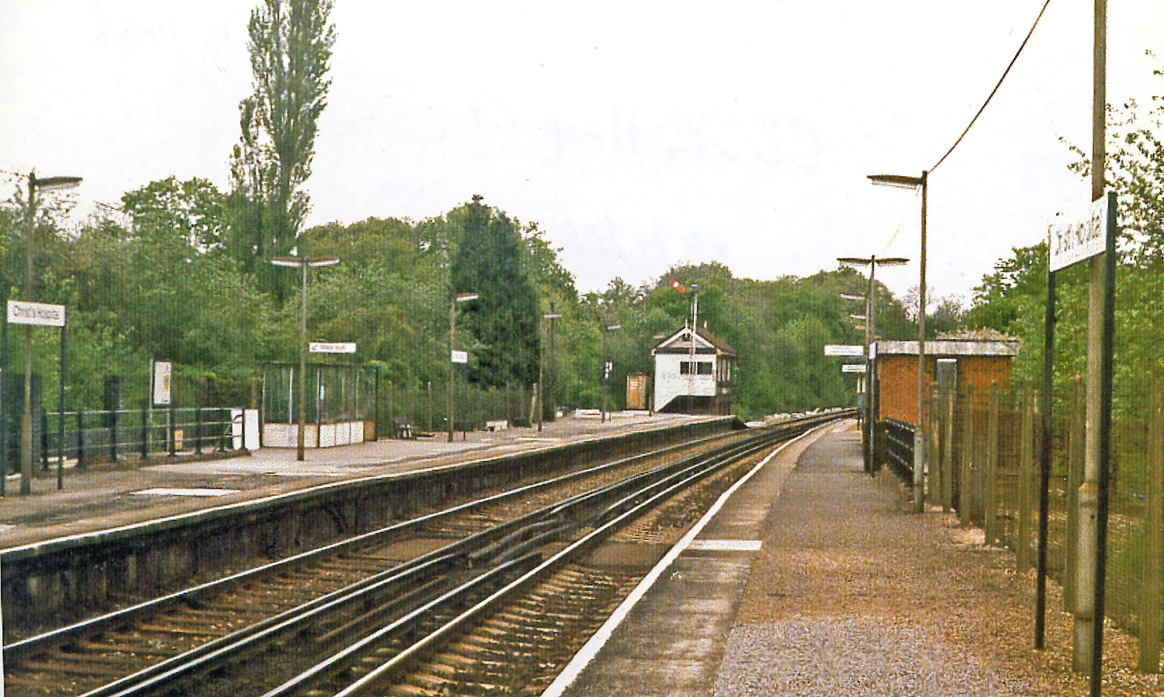 Christ's Hospital station, 1986. View NE, towards Horsham and London: ex-LB&SCR London - Horsham - South Coast via Arun Valley, junction of branches to Guildford and to Shoreham-by-Sea.